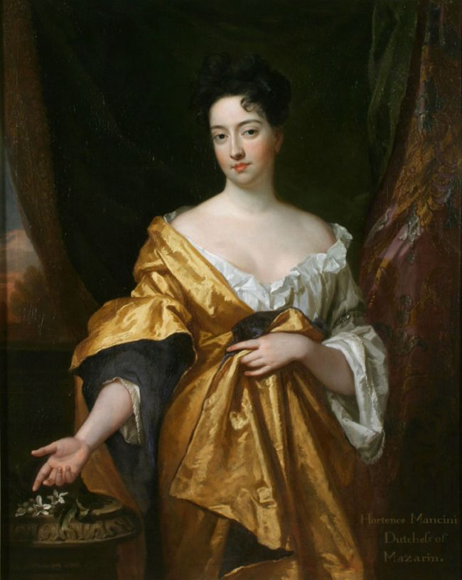 Portrait of Hortense Mancini, duchesse de Mazarin